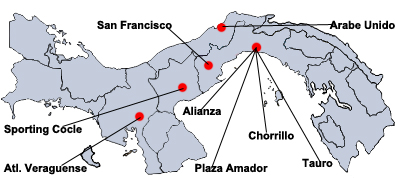 Equipos de la Anaprof 2003